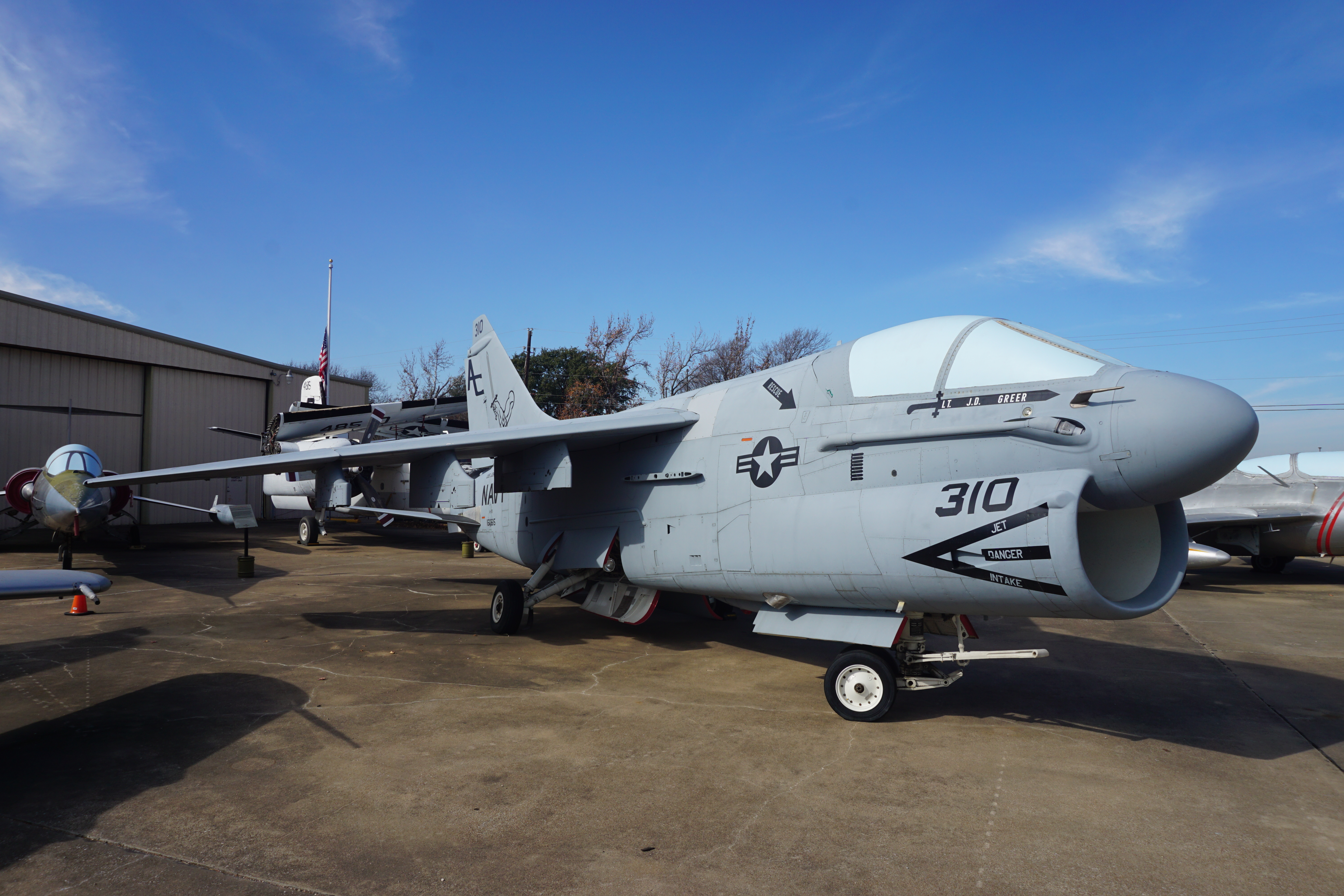 An LTV A-7E Corsair II on display at the Cavanaugh Flight Museum at Addison Airport in Addison, Texas (United States).